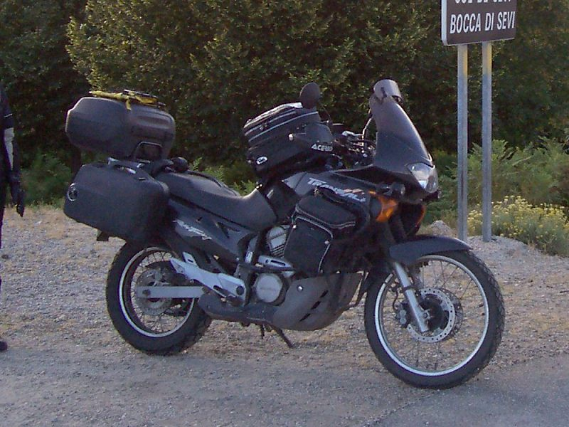 Honda XL650V Transalp 2000